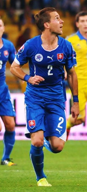 Peter Pekarík